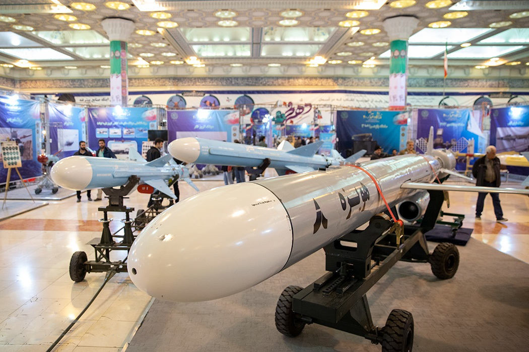 Hoveyzeh cruise missile at the Eqtedar 40 defence exhibition in Tehran.